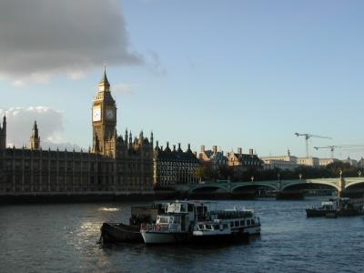 Westminster Palace from across Thames, London. Taken end of 2002 by Khendon. I took the liberty of emailing the original poster regarding licence, and he replied thusly: Yes, I took the photo myself and am happy for it to be distributed and used for any purpose without restriction. So